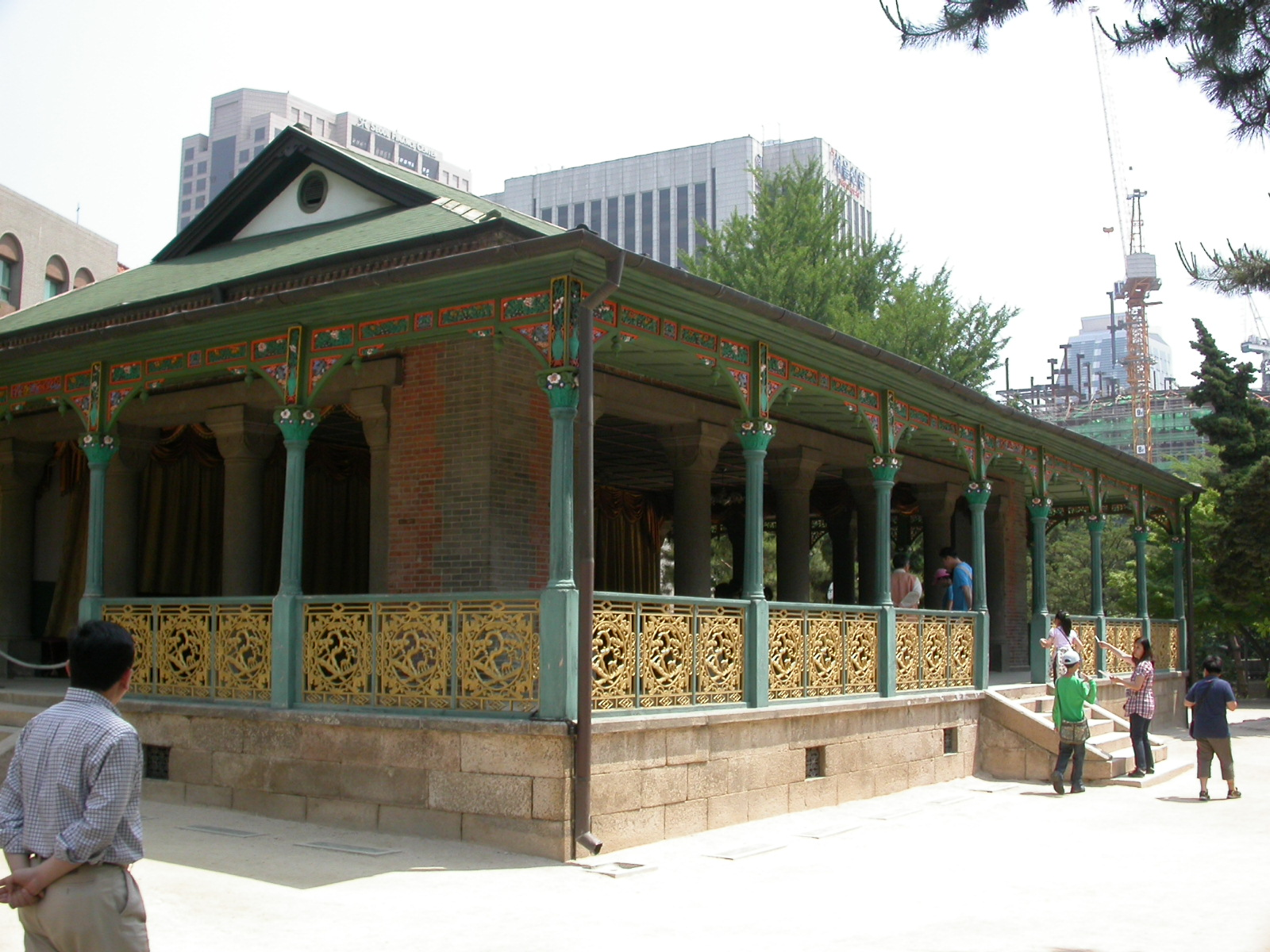 Jeonggwanheon